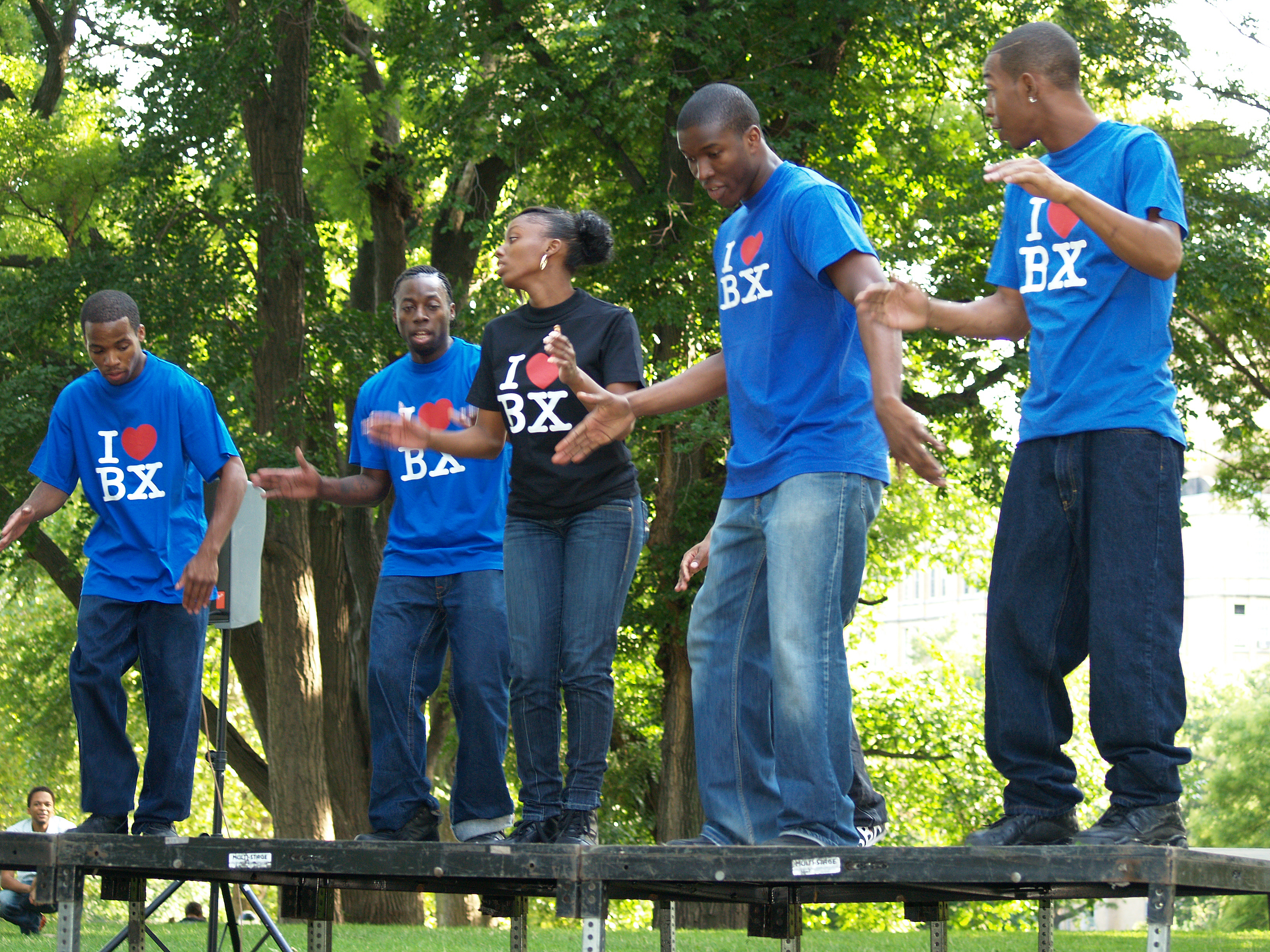 The PLAYERS Club Steppers